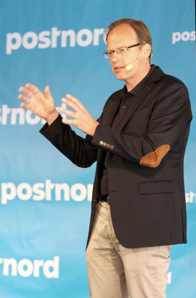 CEO of PostNord Håkan Ericsson at a seminar in Visby, Gotland, Sweden during "Almedalsveckan" 2016.